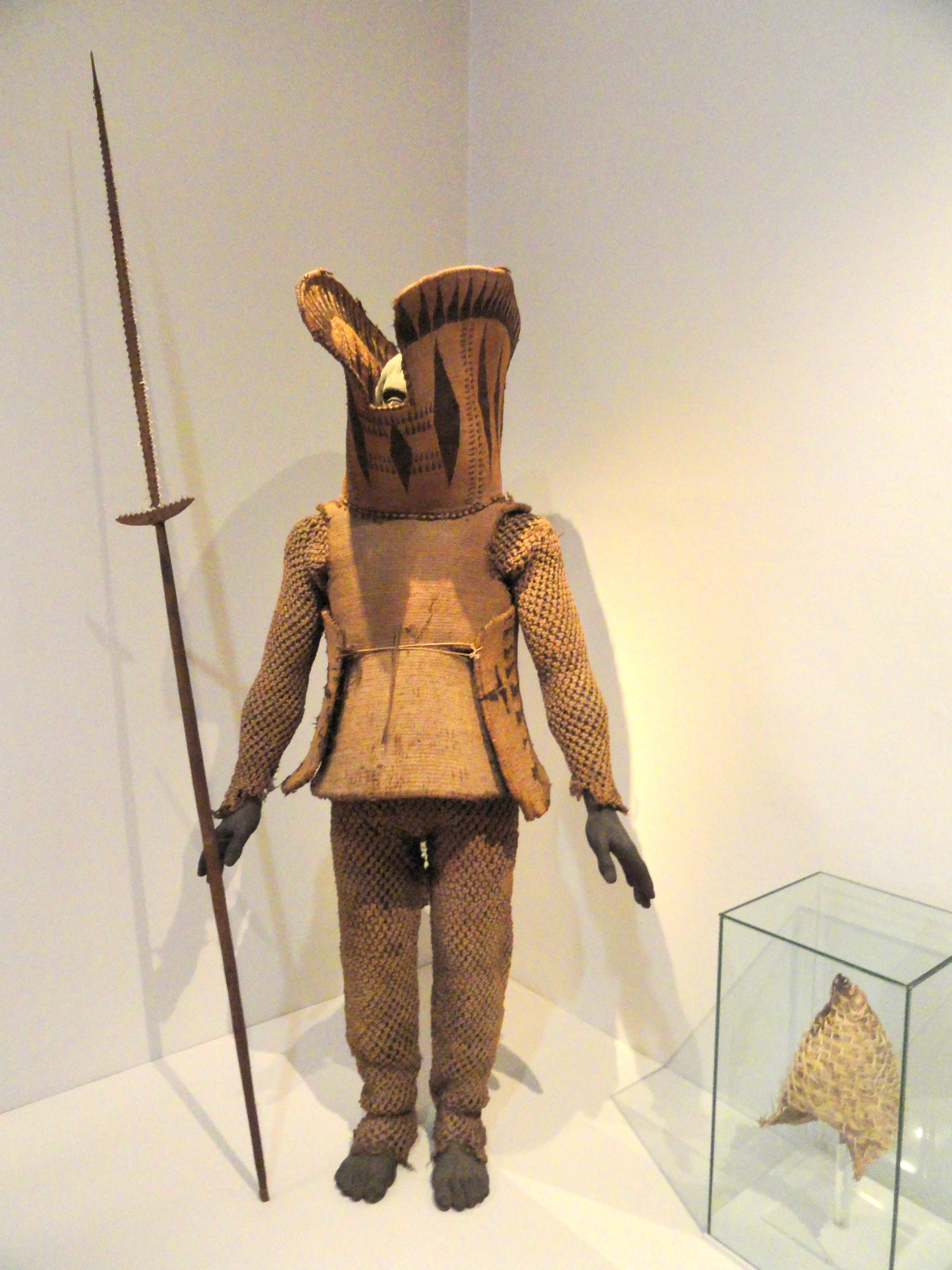 Coconut fibre armour and Porcupine fish helmet of Nauru. Exhibit in the Oceanic collection of the Staatlichen Museums für Völkerkunde München, Maximilianstraße 42, Munich, Germany. Warrior suit, Nauru, 1891.